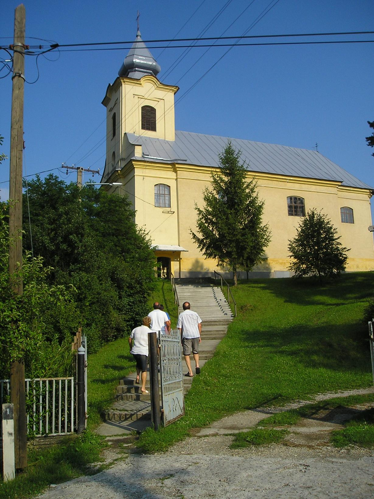 Roman Catholic Church in Csokvaomány, Hungary